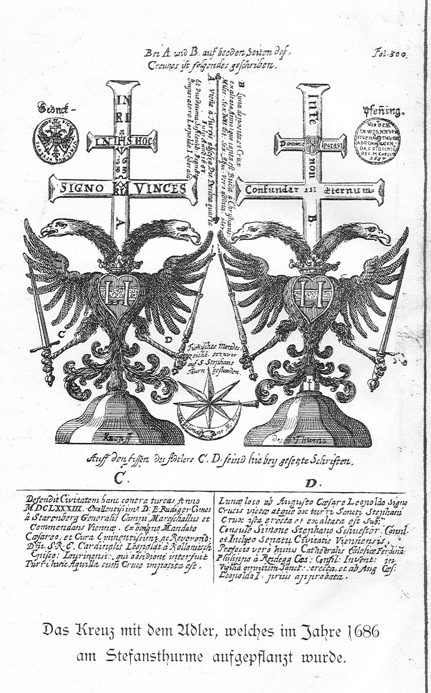 Engraving of cross and eagle, installed on the tower of Saint Stephen, Vienna, in 1686 after the siege of Vienna 1683